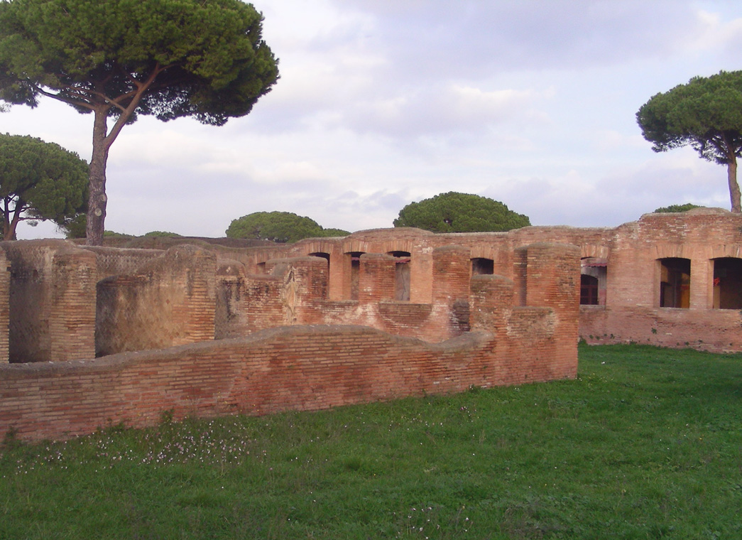 Ostia Antica, archaeological site, "Case a giardino", central building from west